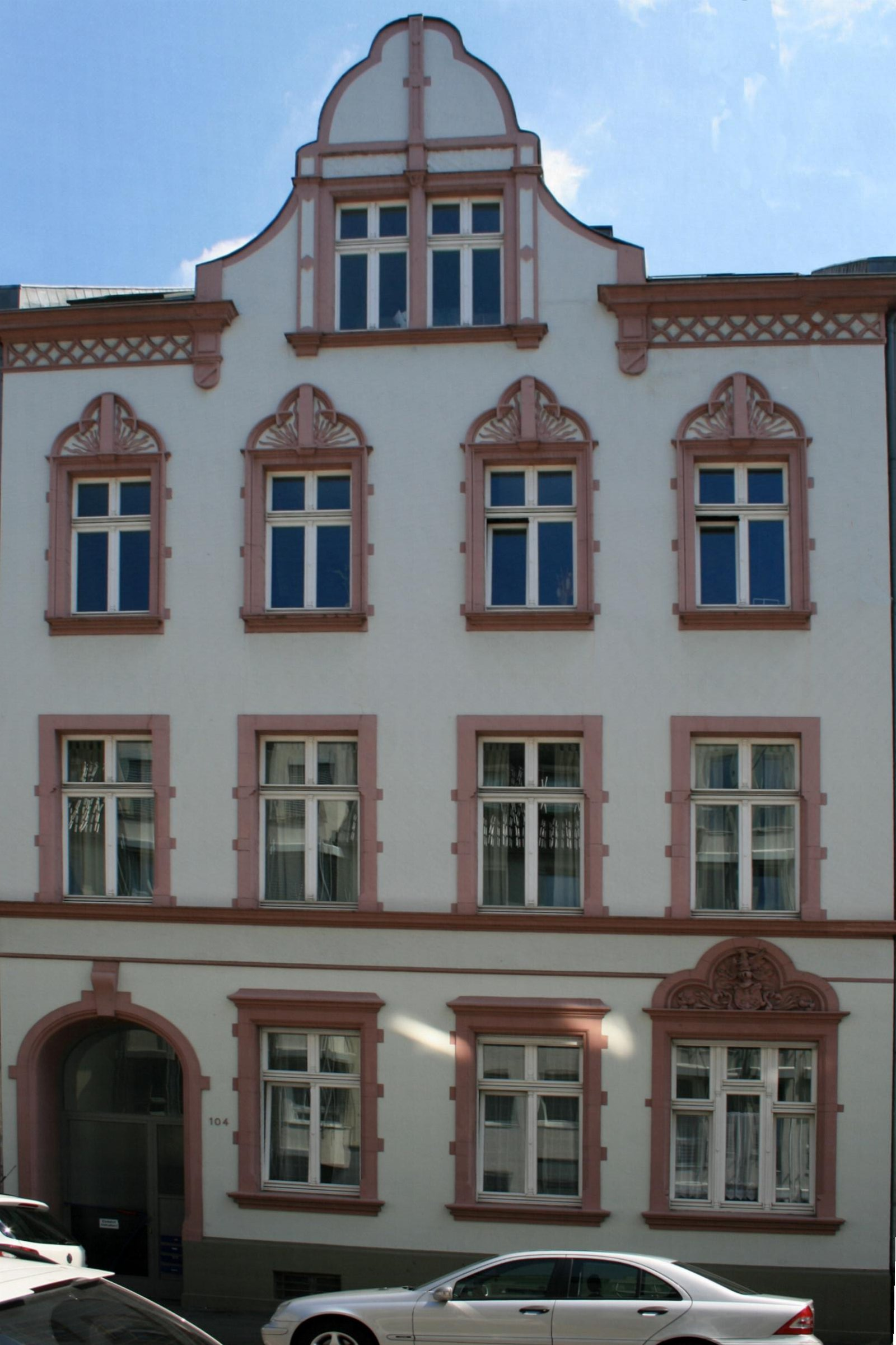 Cultural heritage monument No. K 063 in Mönchengladbach